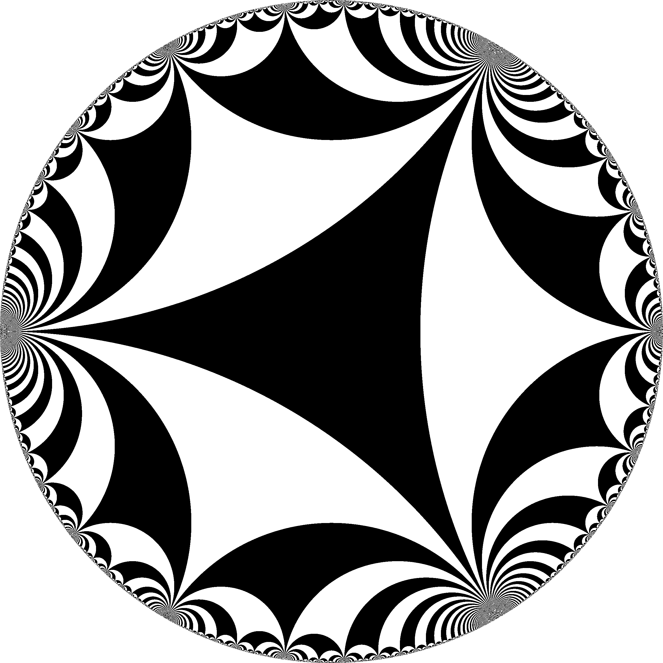 Tiling of the hyperbolic plane by ideal triangles – the biggest triangles of finite area. Generated by Python code at User:Tamfang/programs. Equivalent: Dual